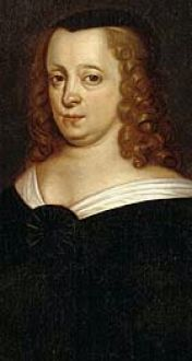 Ebba Brahe (1596-1674)